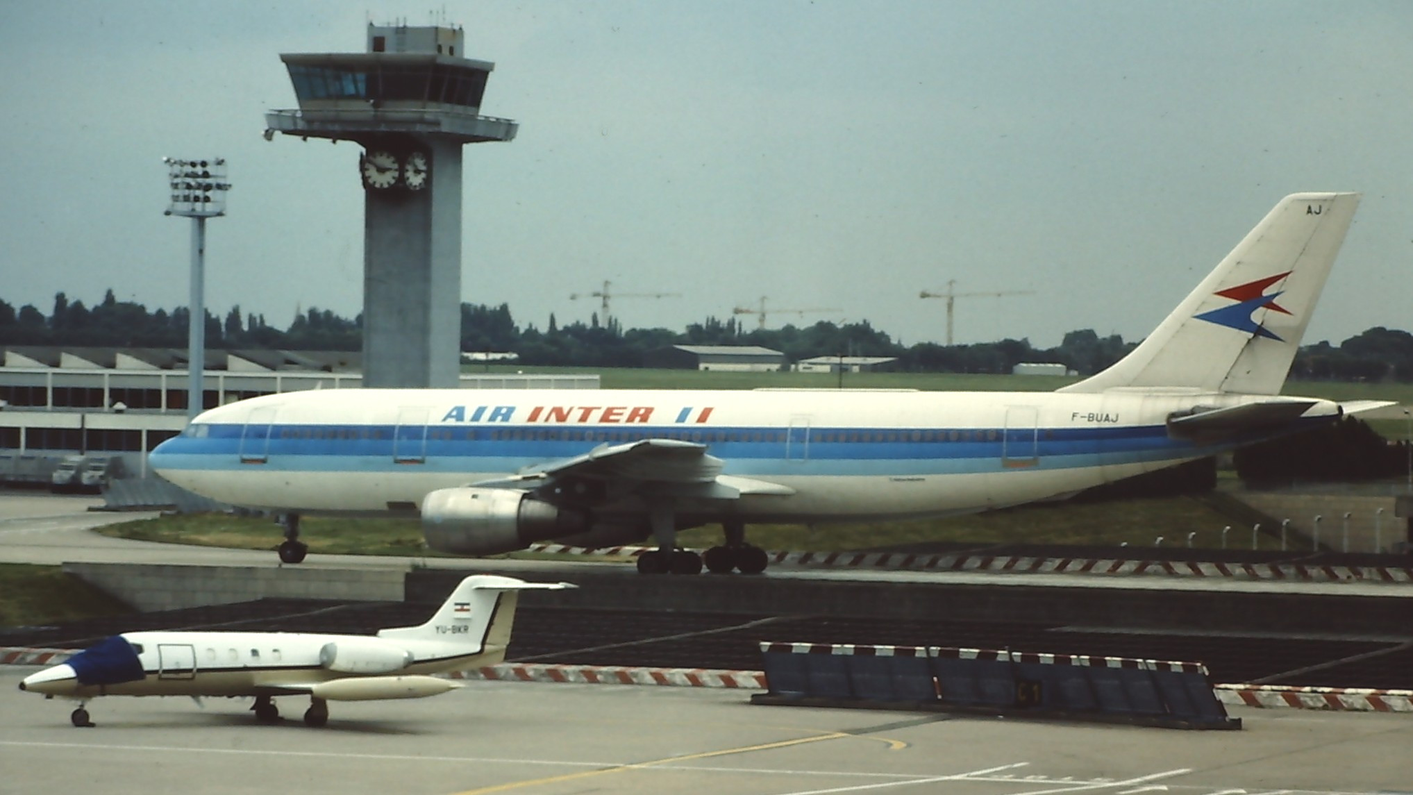 F-BUAJ an Airbus A300B2 of Air Inter at Paris-Orly Airport, also note the Yugoslav Government Gates Learjet 25D YU-BKR in foreground (scan from slide)